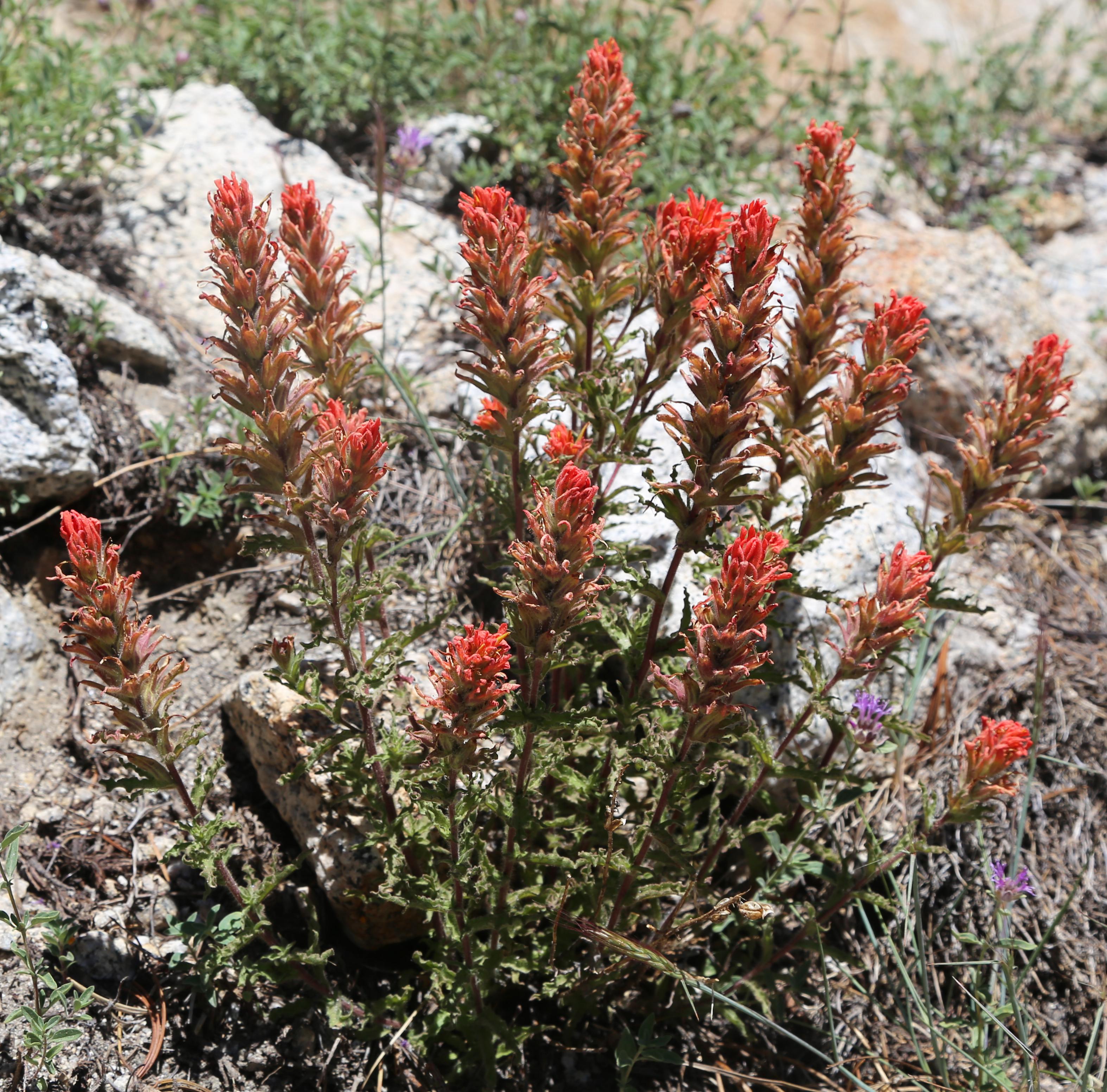 Applegate paintbrush (Castilleja applegatei), flowering plant. At 11,300 ft (3,400 m) along the trail to Mono Pass, John Muir Wilderness, Sierra Nevada USA.